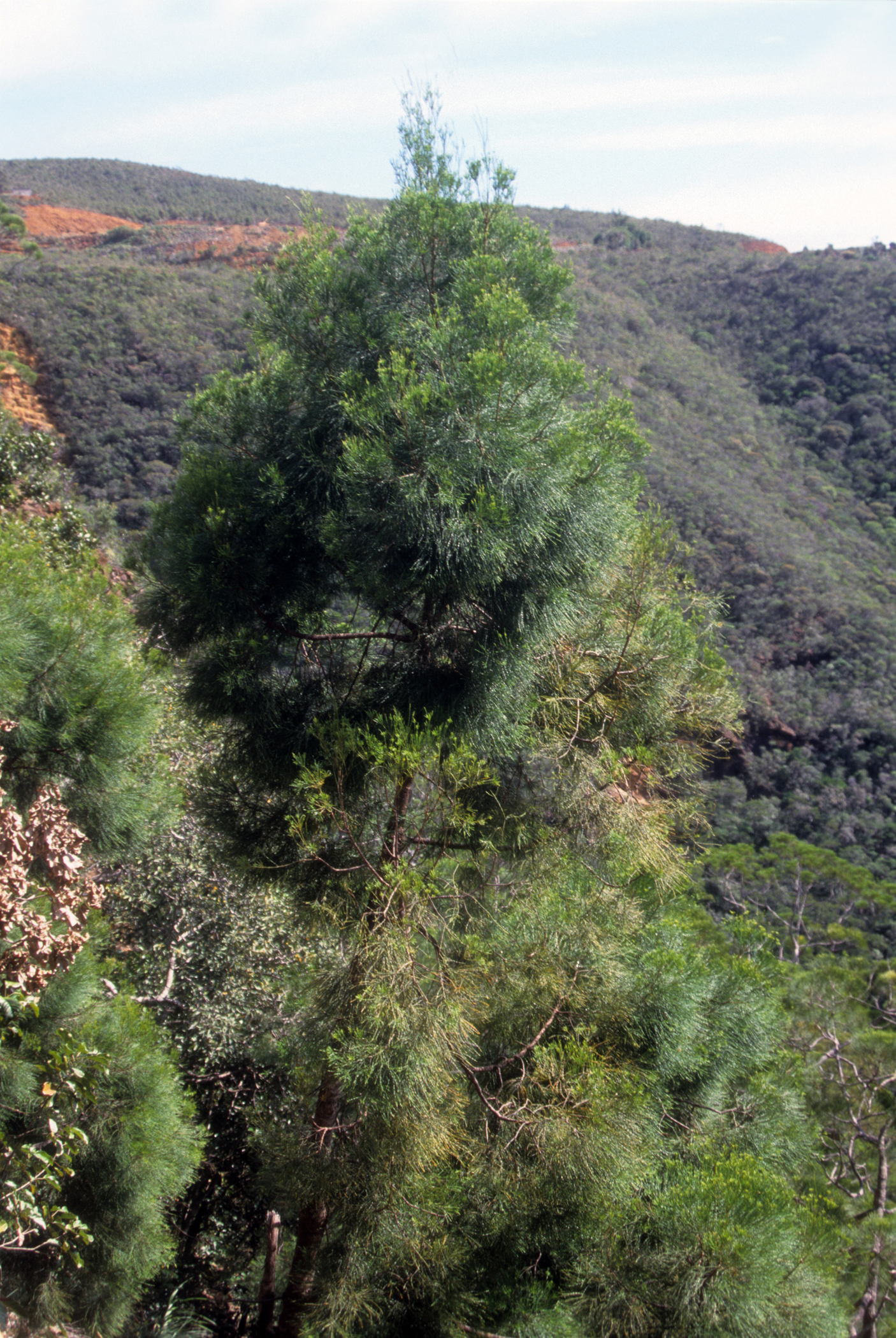 Mt. Dzumac, New Caledonia, Sep 2000. from slide.